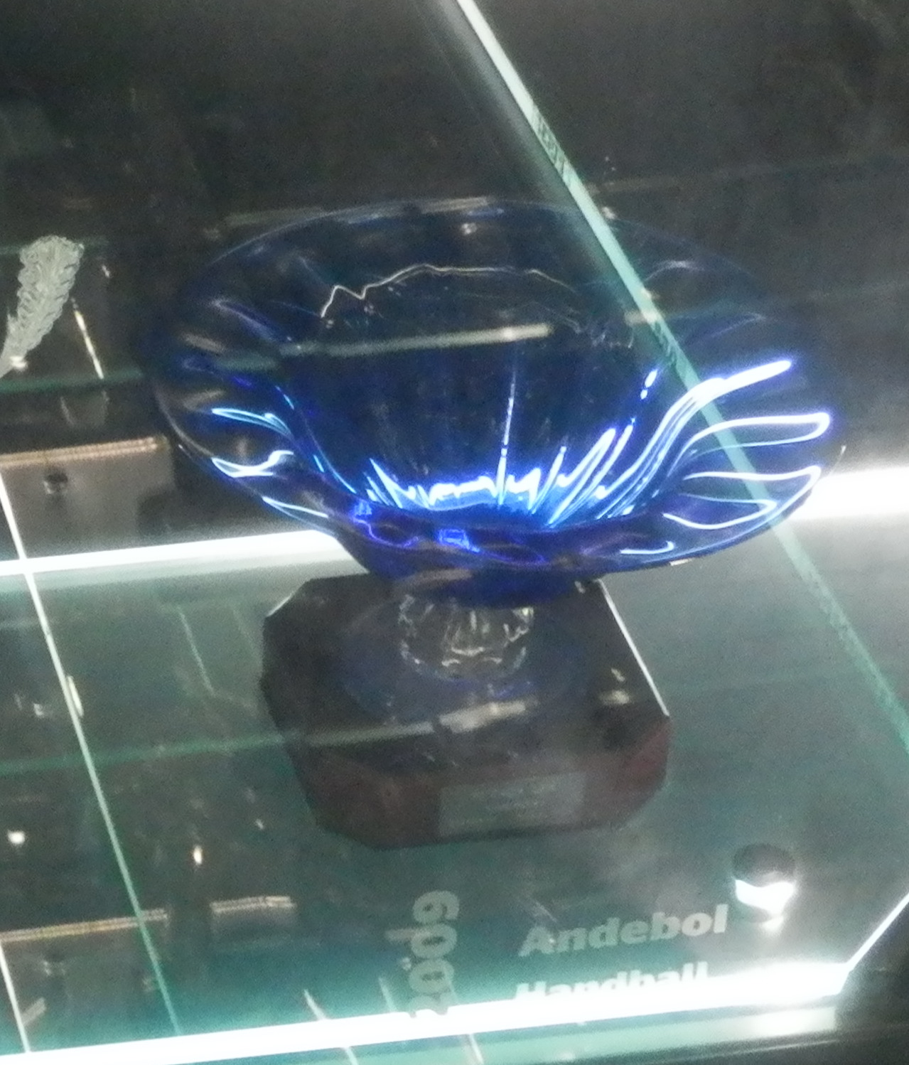 Handball trophies, the blue cup is probably the Portuguese League Cup